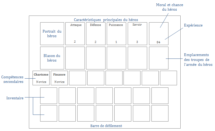 Diagram showing the functionalities of the interface of an hero's screen in the video game Heroes of Might and Magic II (1996).